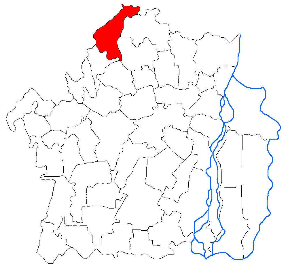 Limits of the commune of Salcia Tudor in Brăila County, Romania